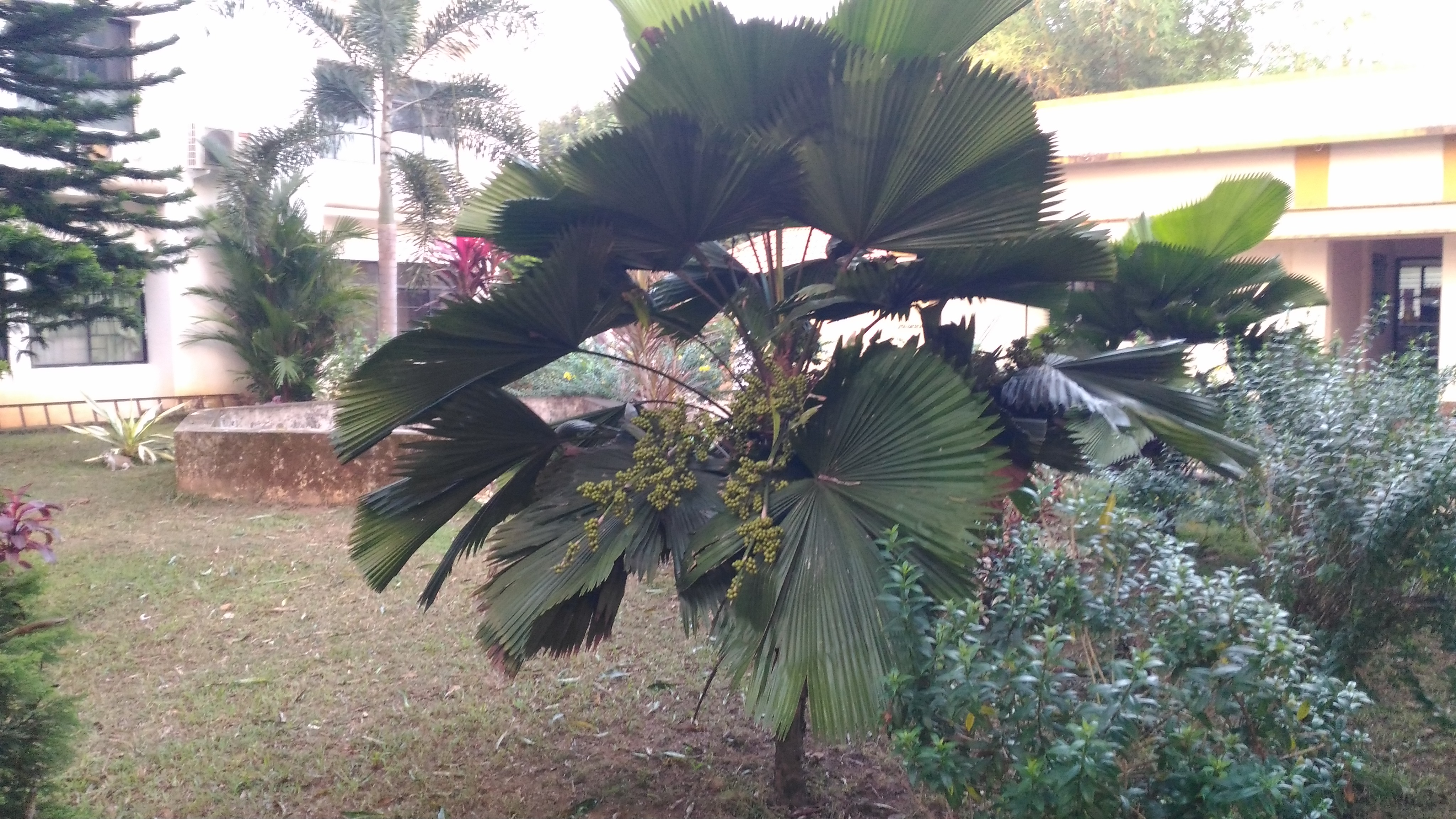 Corypha umbraculifera plant in a garden at Anandashram